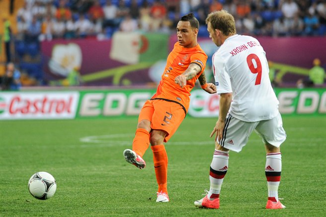 UEFA Euro 2012 match between Netherlands and Denmark that took place in Kharkiv. Final result was 0:1 (Krohn-Delhi)